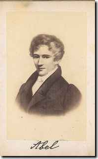 Drawing of the famous Norwegian mathematician Niels Henrik Abel, with his signature